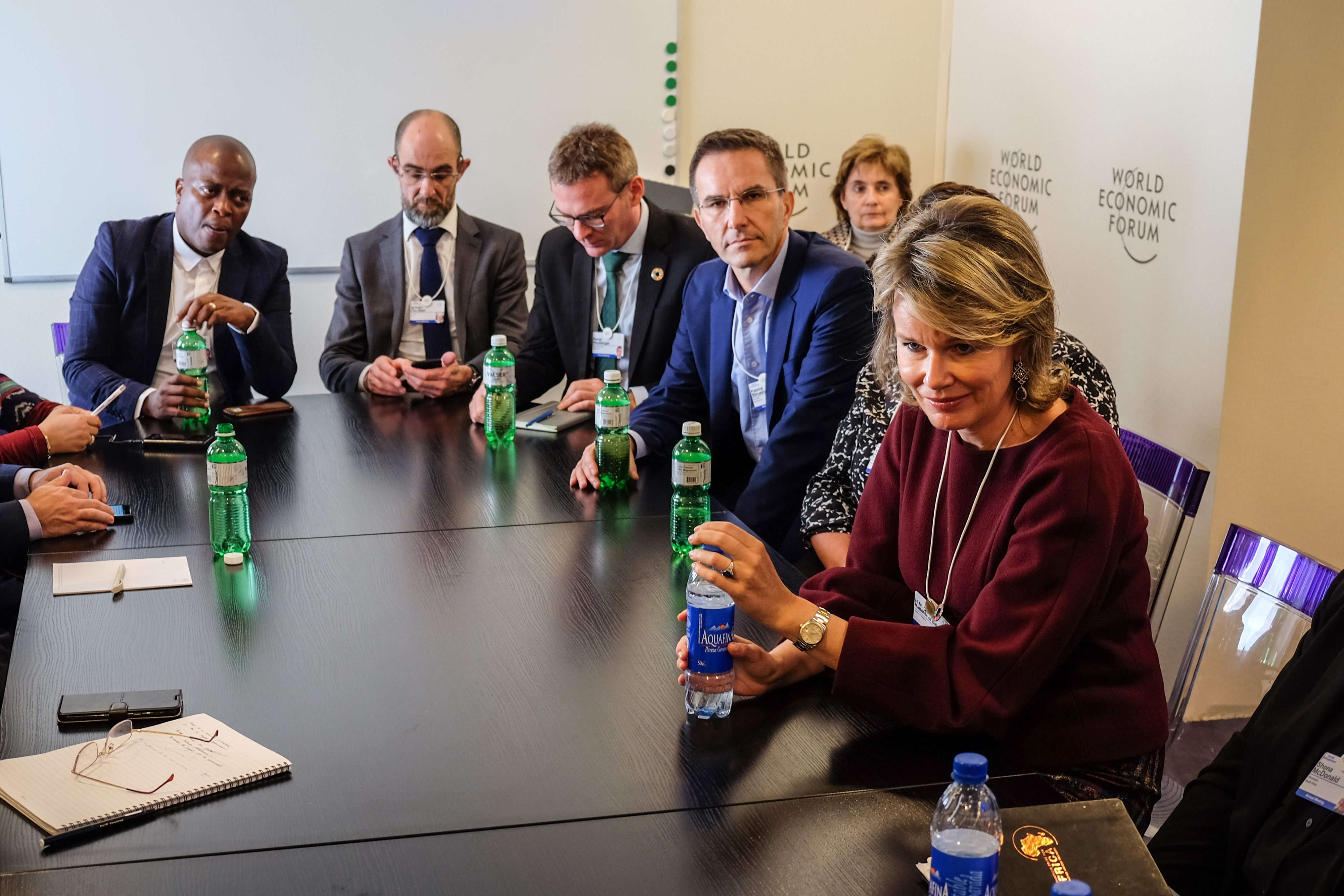 Multilateral with Queen Mathilde of Belgium